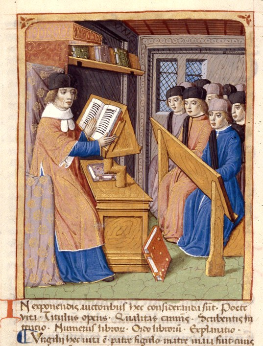 Servius teaching the pastoral arts, a miniature from the Georgics, France, 15th century